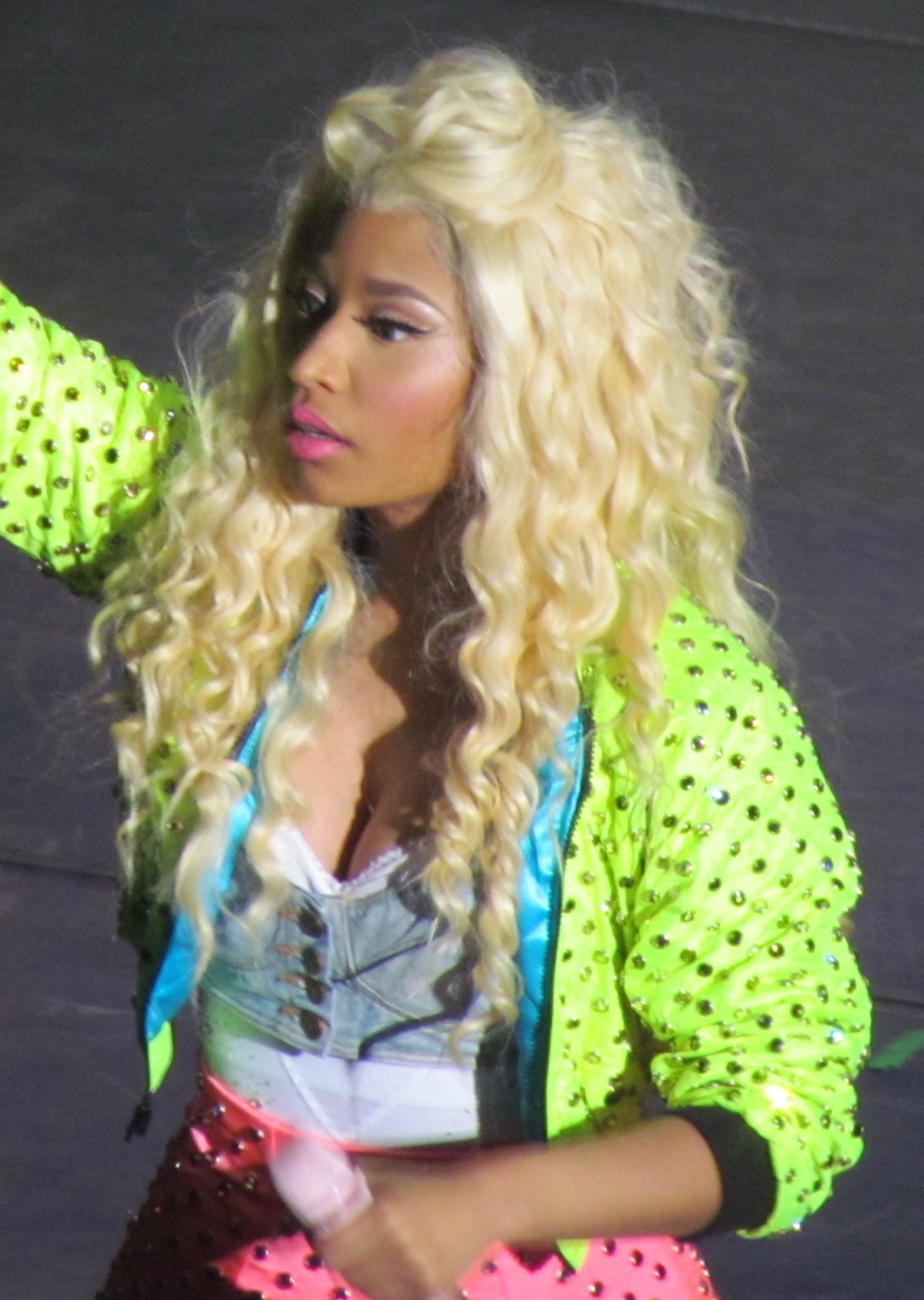 Nicki Minaj performing at the HMV Hammersmith Apollo on June 25, 2012 in London, England on the Pink Friday Tour.